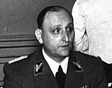 Walter Bertsch (1900-1952). SS and NSDAP member. Nazi criminal convicted of war crimes. Minister of Protectorate of Bohemia and Moravia appointed by the Nazis.